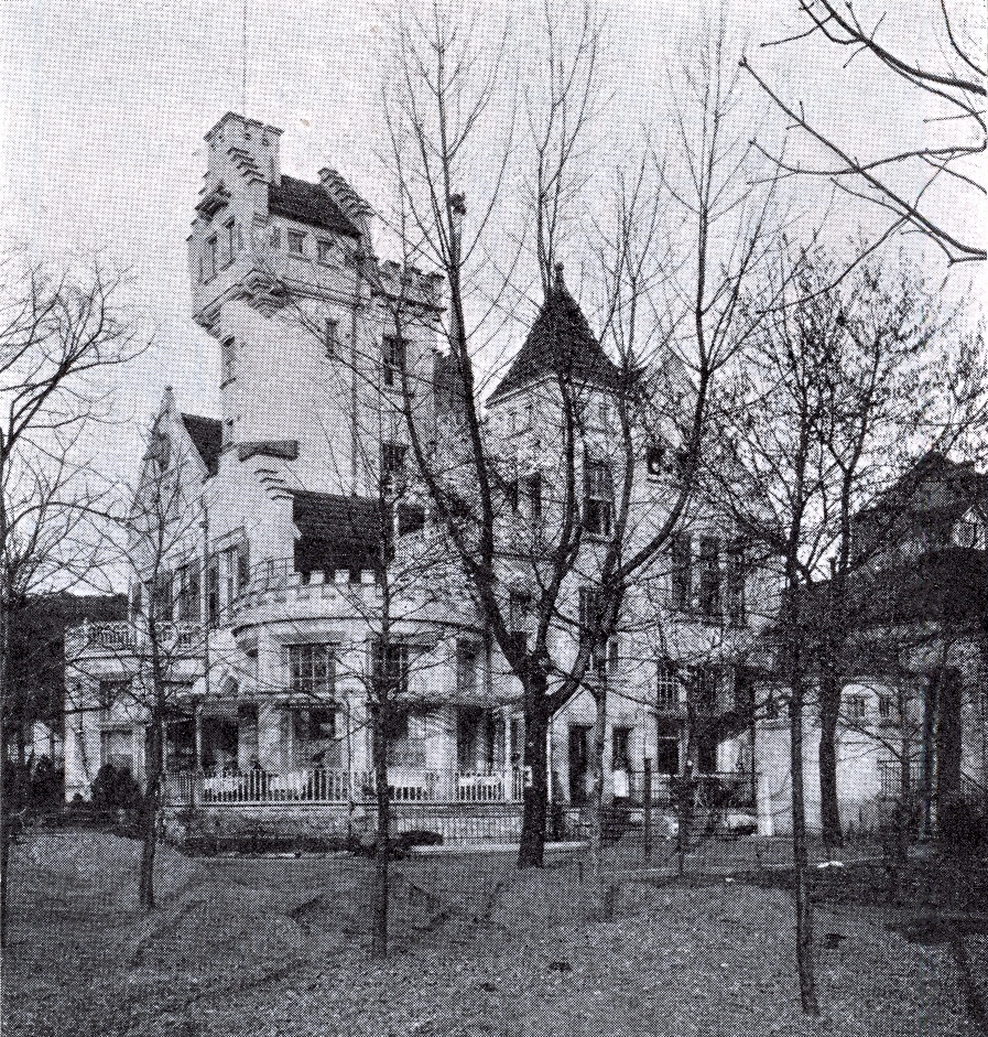 Gaststätte Jägerhaus, Ludenberger Straße 1 in Düsseldorf-Gerresheim, erbaut durch P. P. Fuchs, erweitert im Jahre 1902, Gartenansicht.